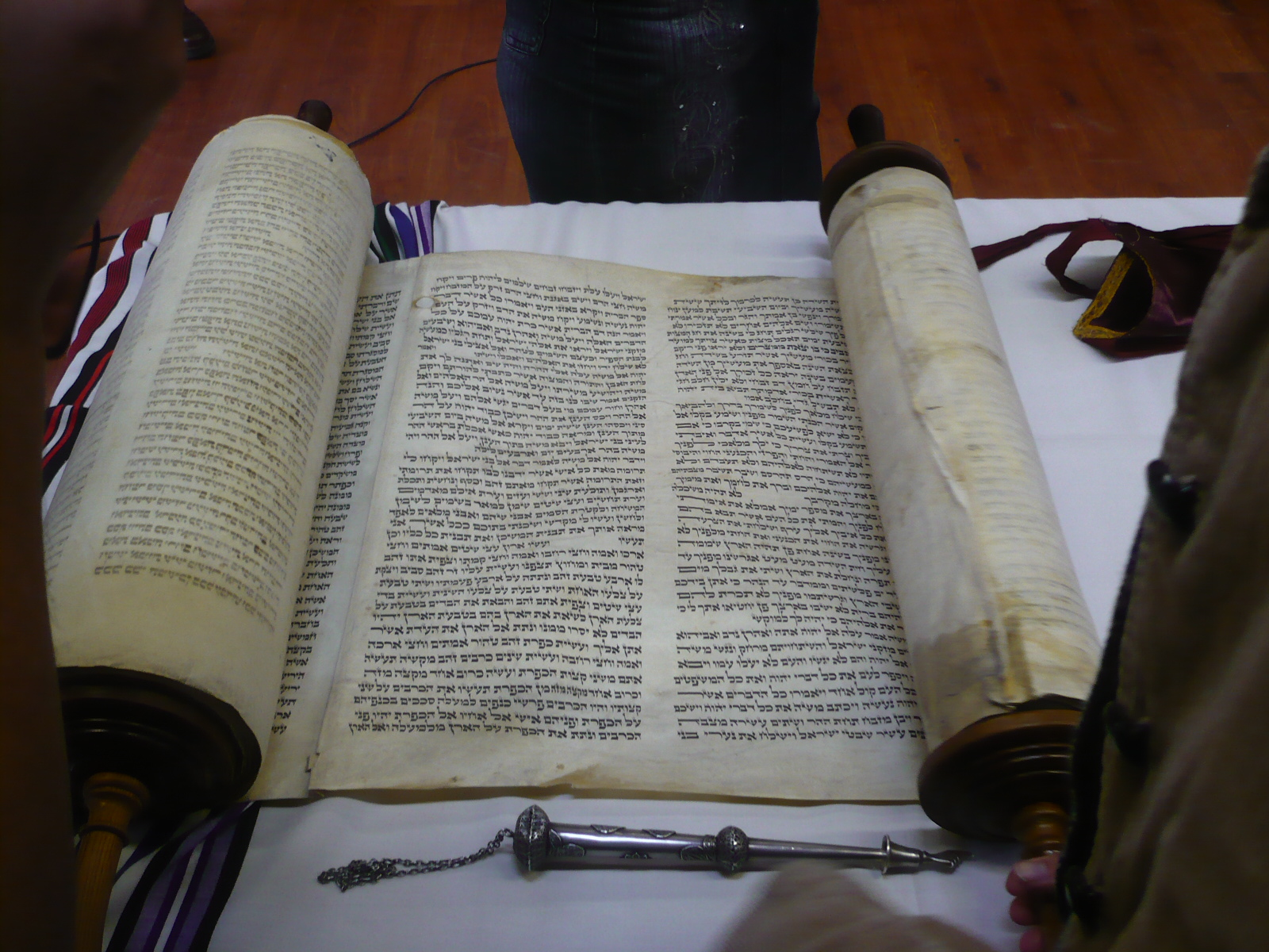 The Yanov Torah rescued from the Holocaust as presented to seminary students at InterSem 2009 in Malibu, CA